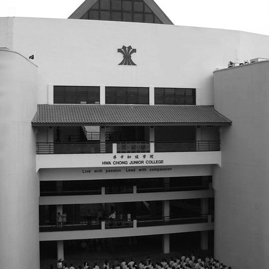 Hwa Chong Junior College in 2004, before the merger to form Hwa Chong Institution in 2005.